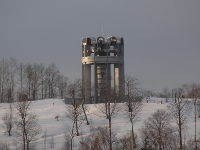 Bells of Espoir, Hokkaido, Japan on March 2006. 上川町エスポワールの鐘 (2006年3月撮影) Photographer ほくなん, this work is in PD